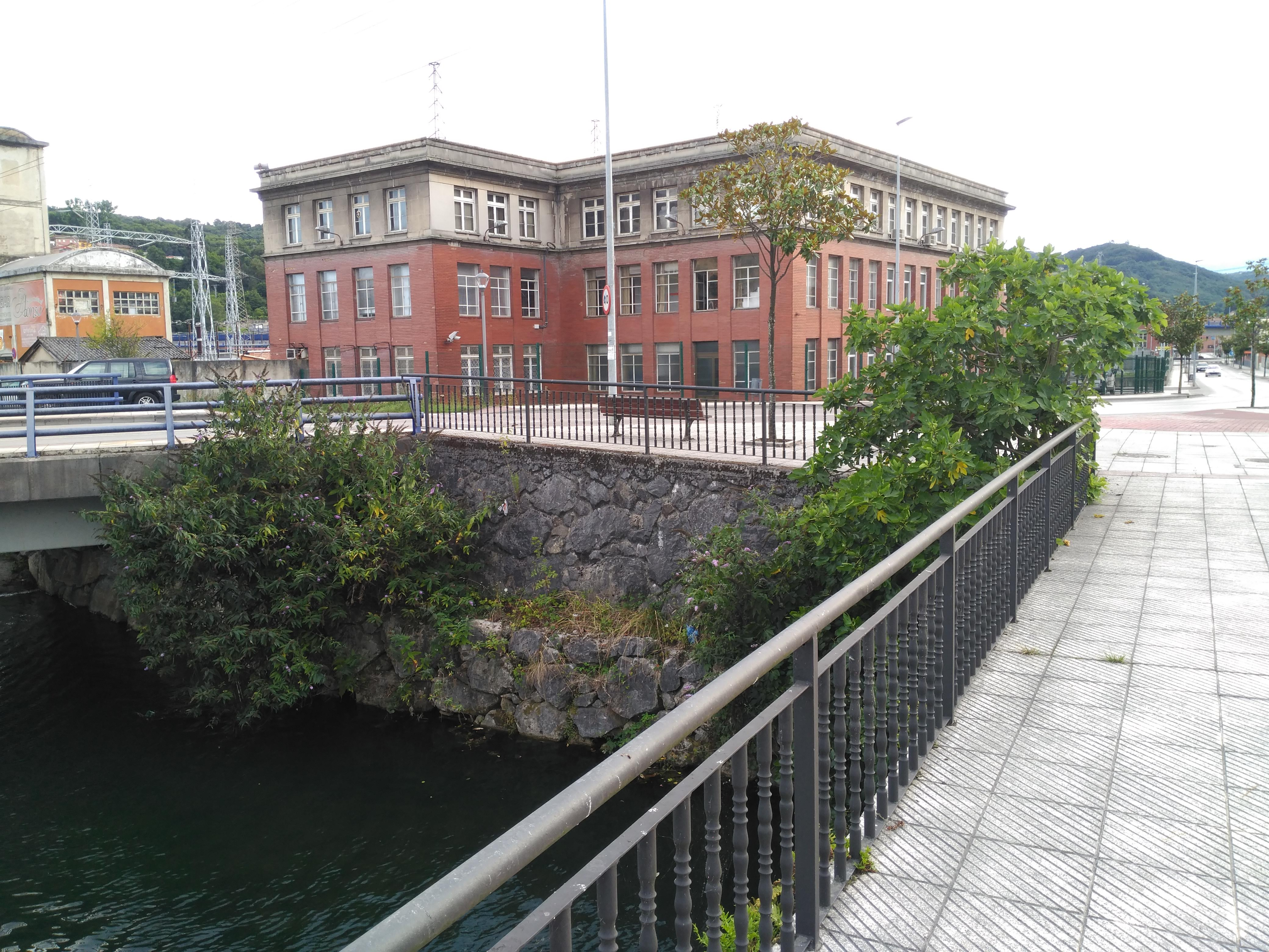 Facilities of Derco old factory in Langreo, Spain